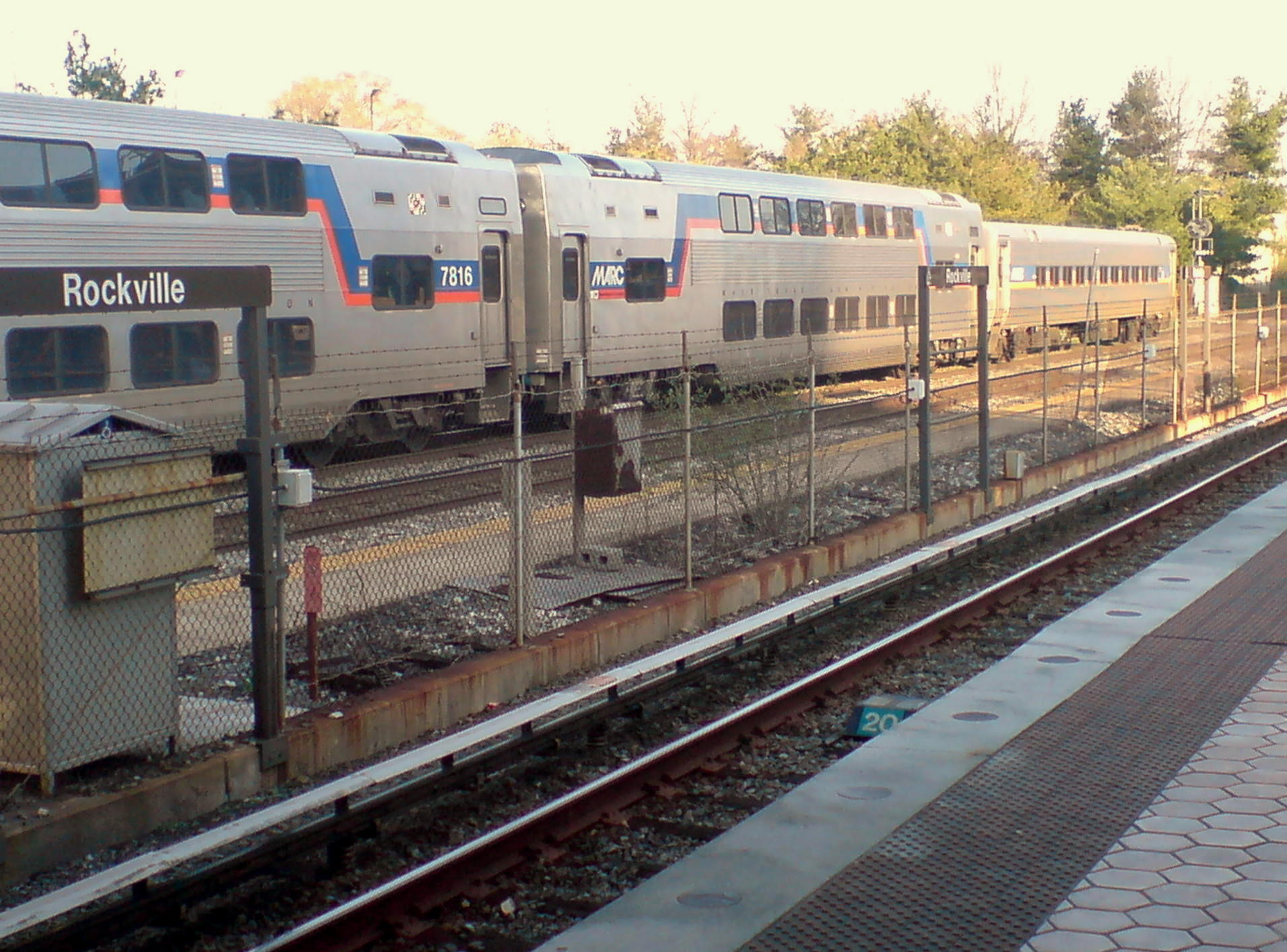 A Brunswick Line train at Rockville station in April 2007